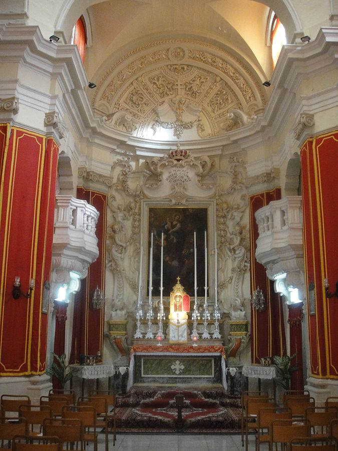 Interior of St James church, Żurrieq, Malta